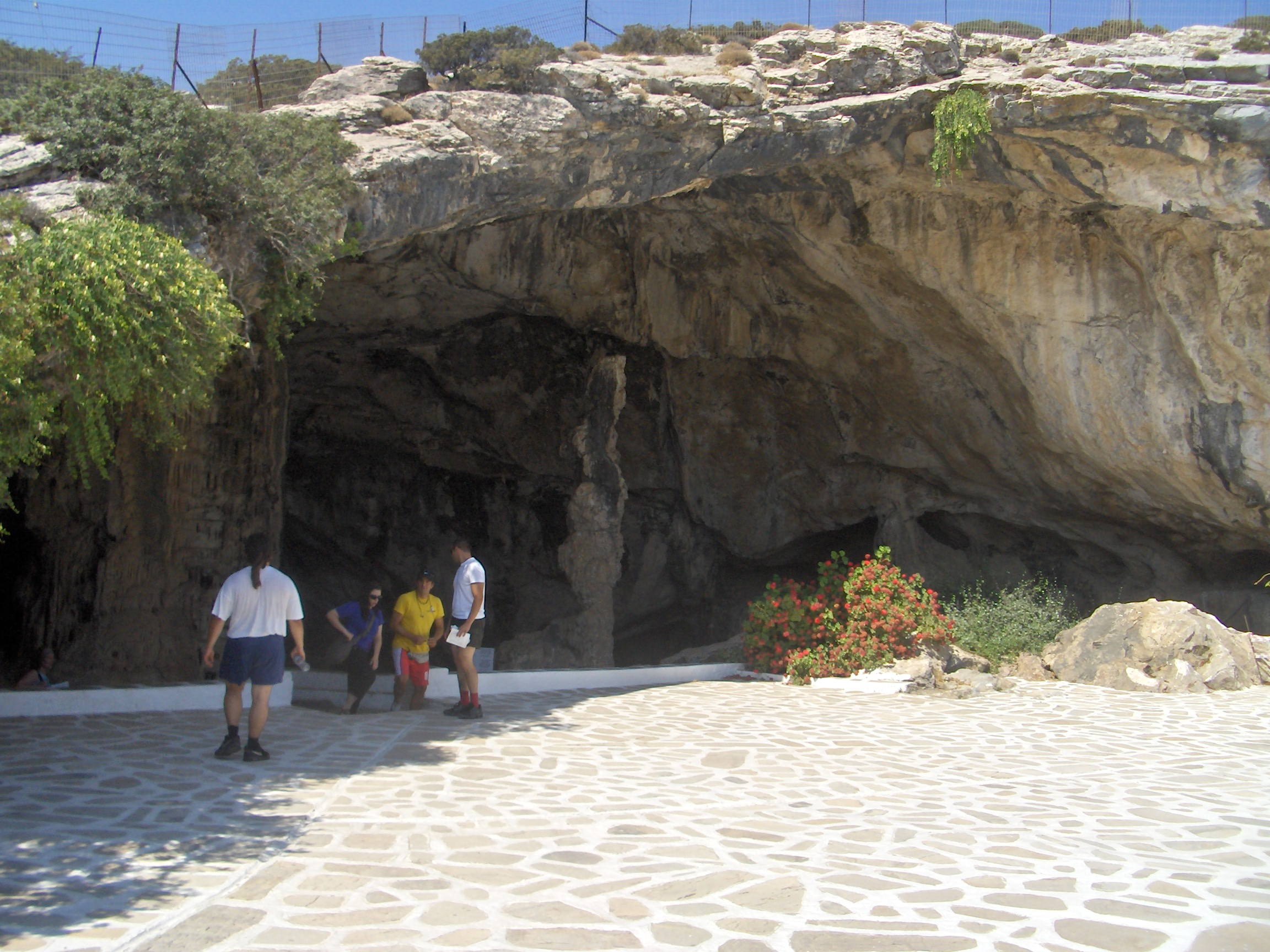 Cave entrance at Antiparos, Greece.